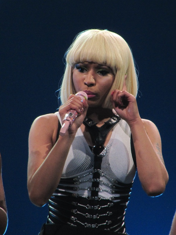 Nicki Minaj live on Femme Fatale Tour in 2011.